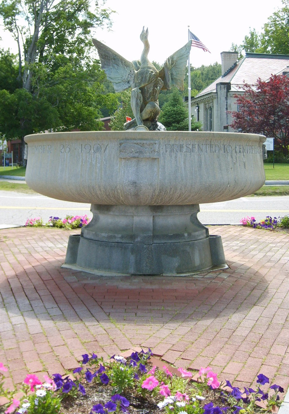 Kona Fountain, Center Harbor, New Hampshire (wide view)